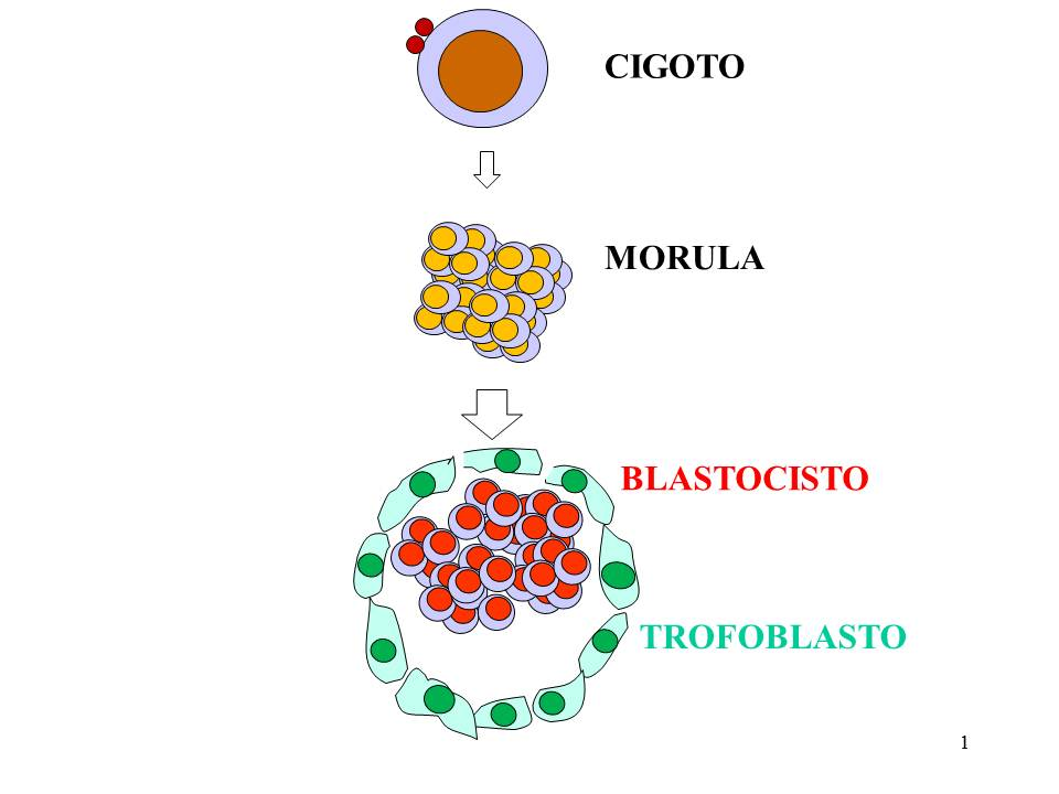 generación de blastocistos